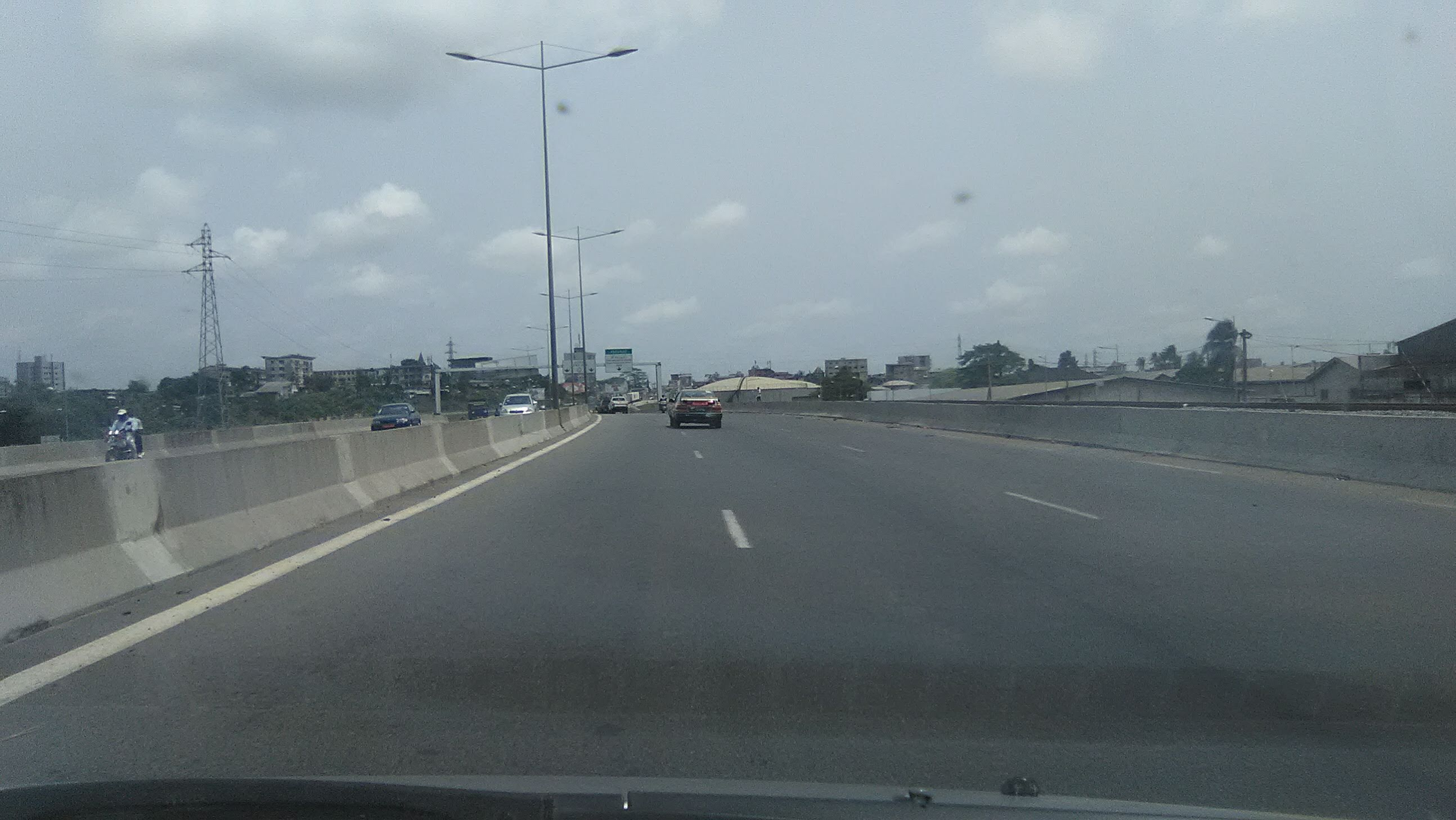 This is an image with the theme "Africa on the Move or Transport" from: Cameroon